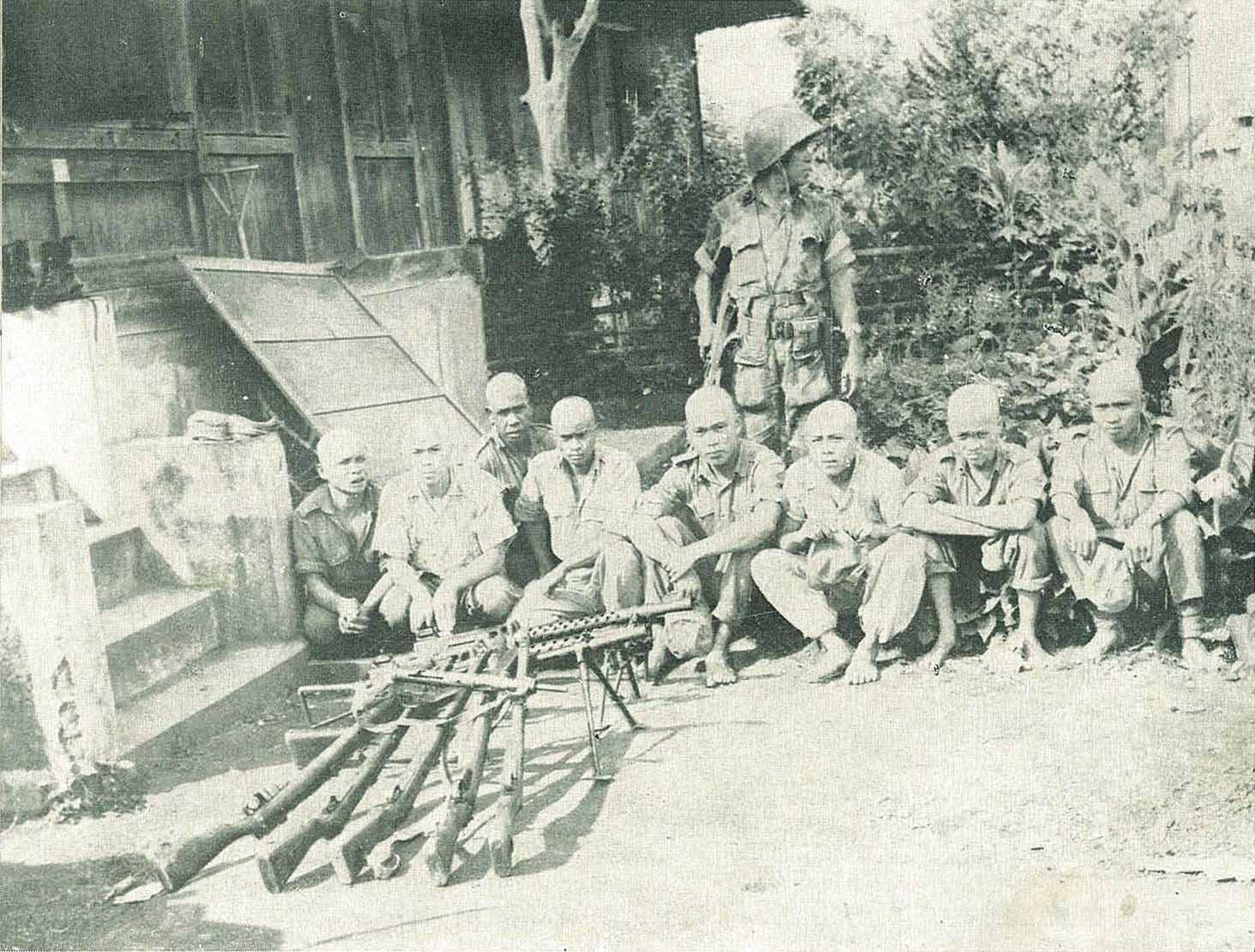 Captured PERMESTA troops